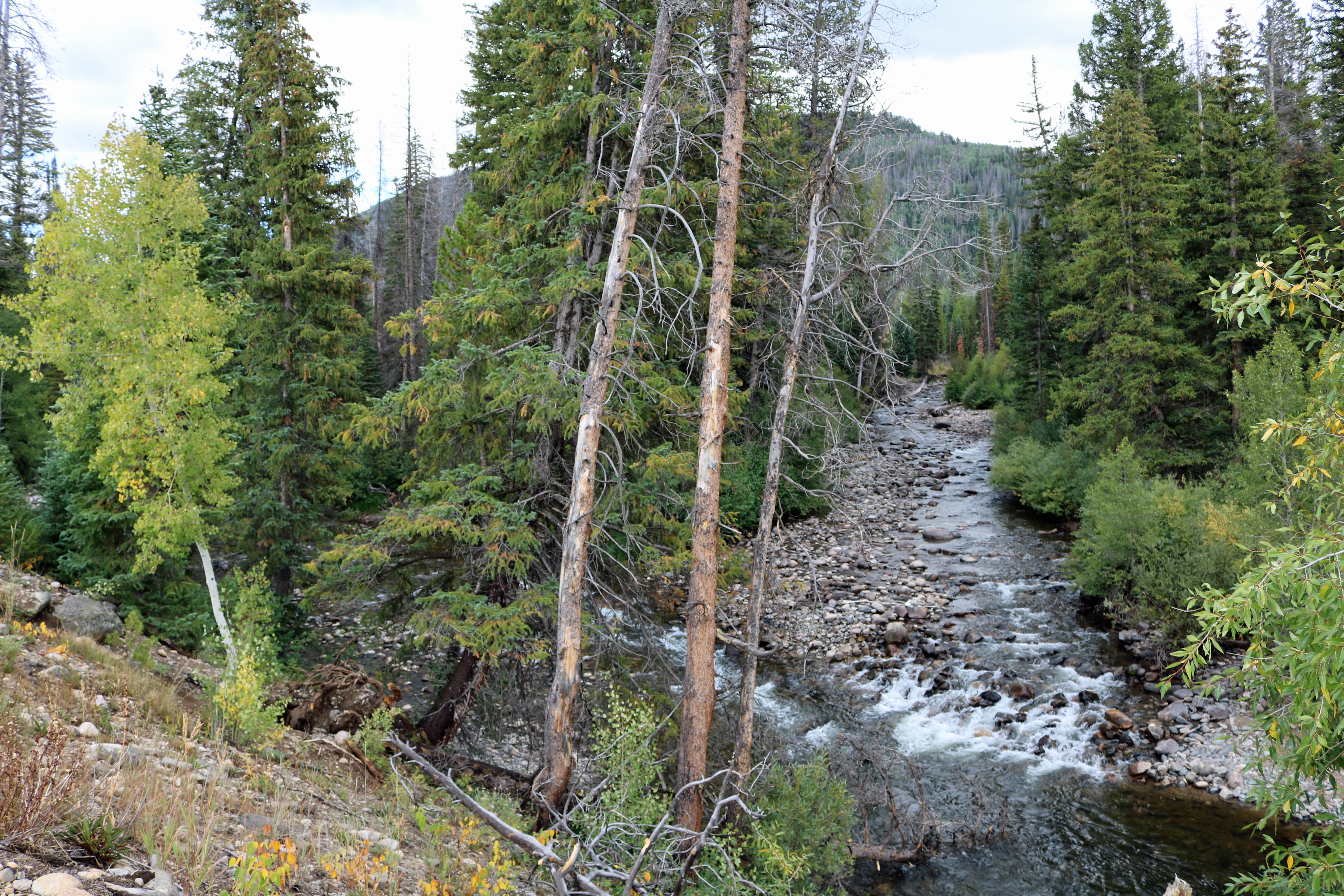 The confluence of the Elk River and the South Fork Elk River in Routt County, Colorado. In the picture, the Elk River flows from left to right, and the South Fork Elk River flows from top to bottom, emptying into the Elk River. The picture shows the mouth of the South Fork Elk River.